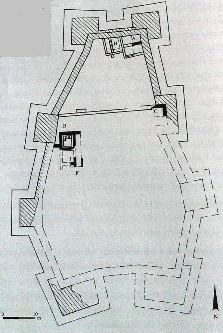 Keren Naftali - Plan of the fortress